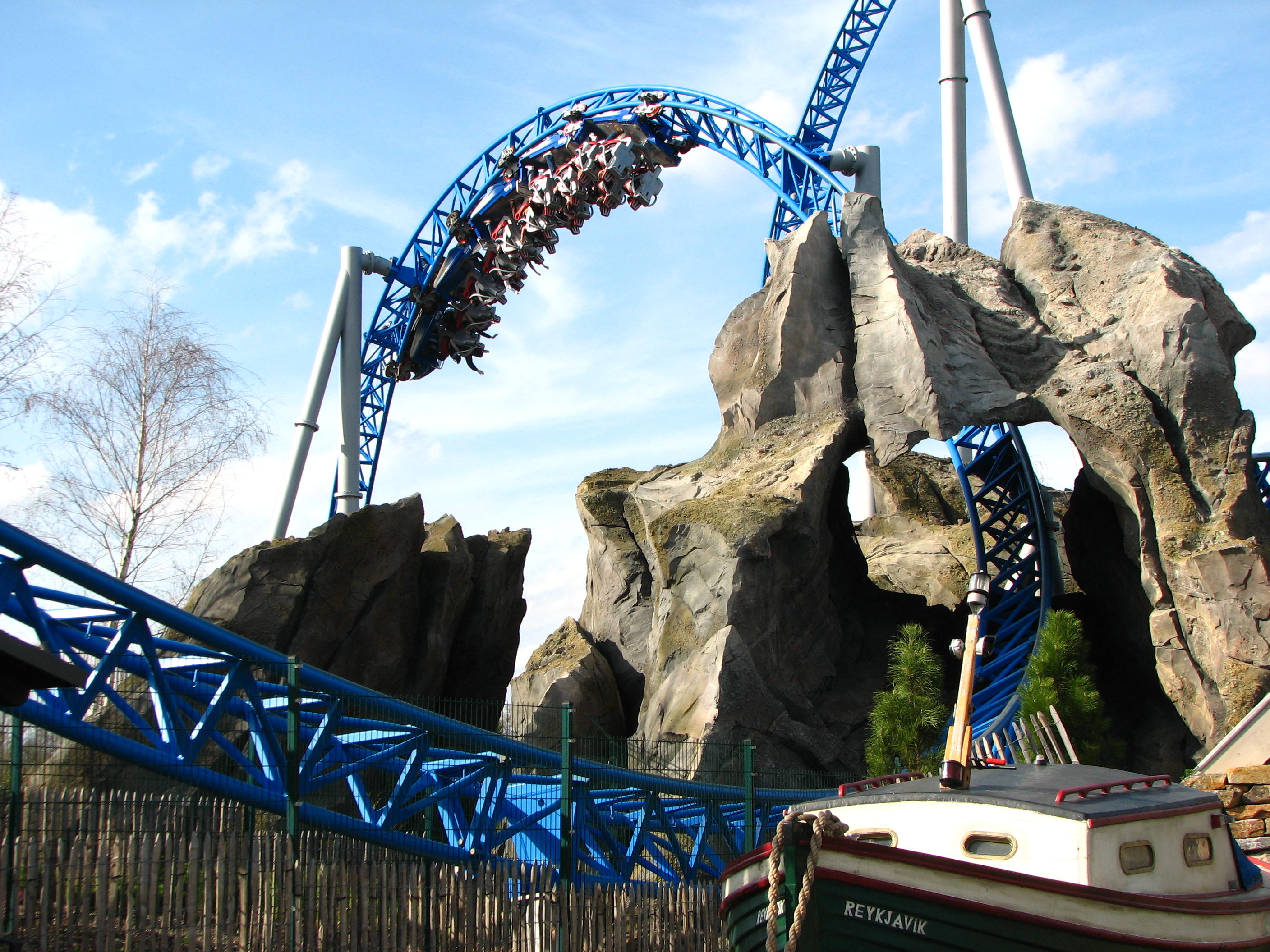 Blue Fire Megacoaster, Europa-Park, Rust, Baden-Württemberg, Germany.